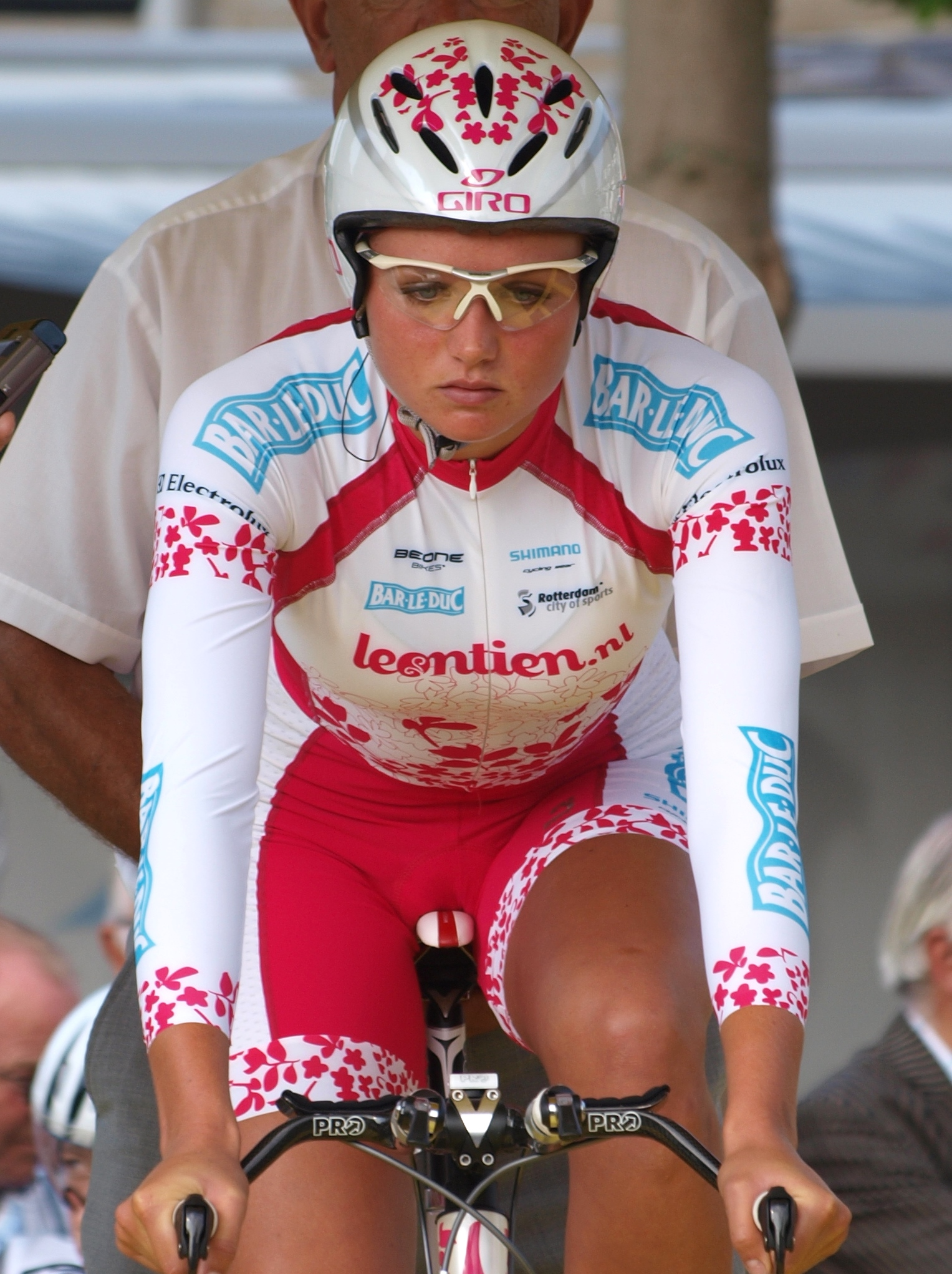 Chantal Blaak, Dutch cyclist, during the Dutch time trial Championships 2009